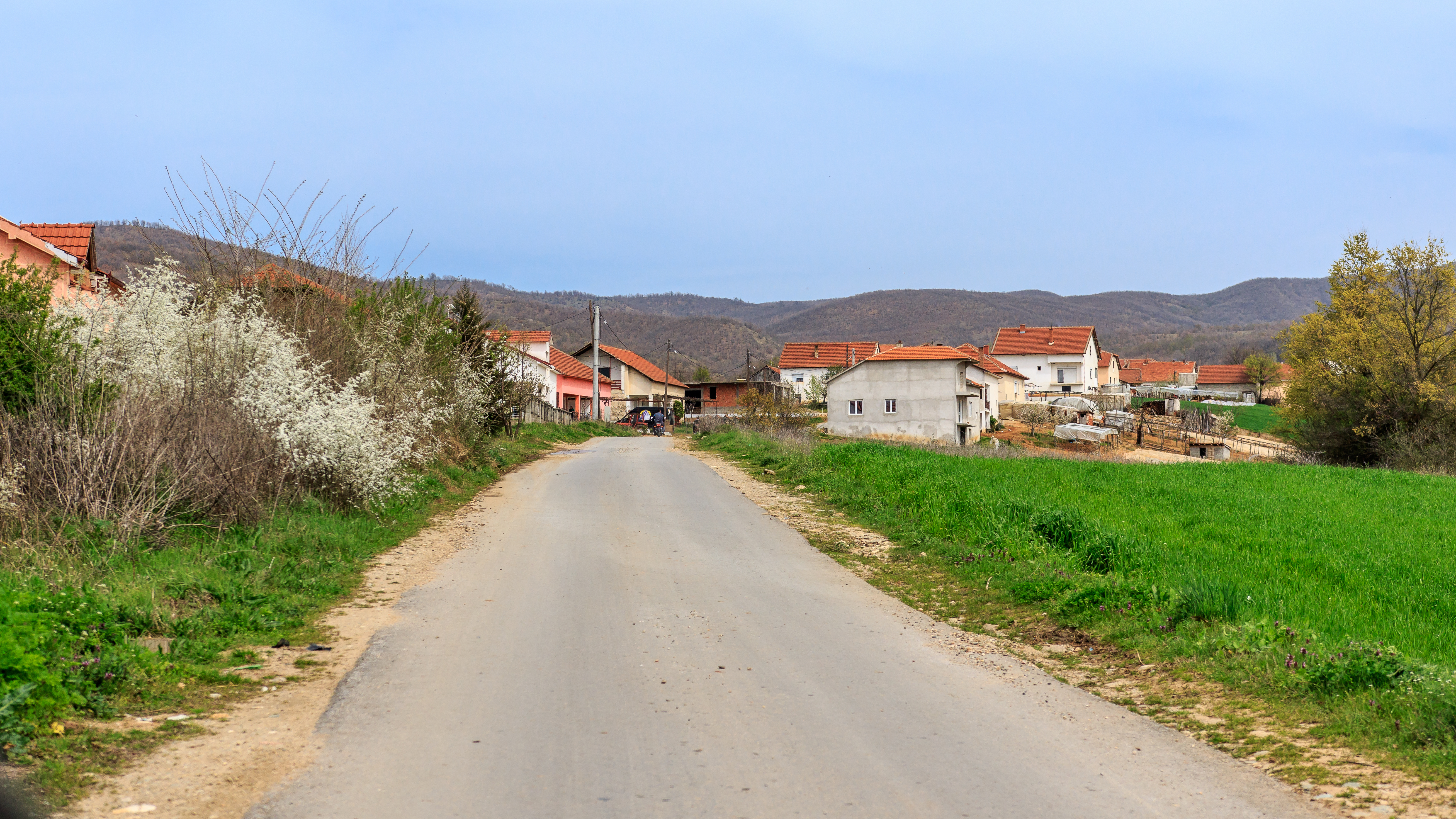 View of the village Rakitec